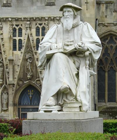 5164561521564897 Taken by me (ryan grenzow and released now by me under the GFDL. Richard Hooker statue in grounds of Exeter Cathedral Logan Wenger & Paige